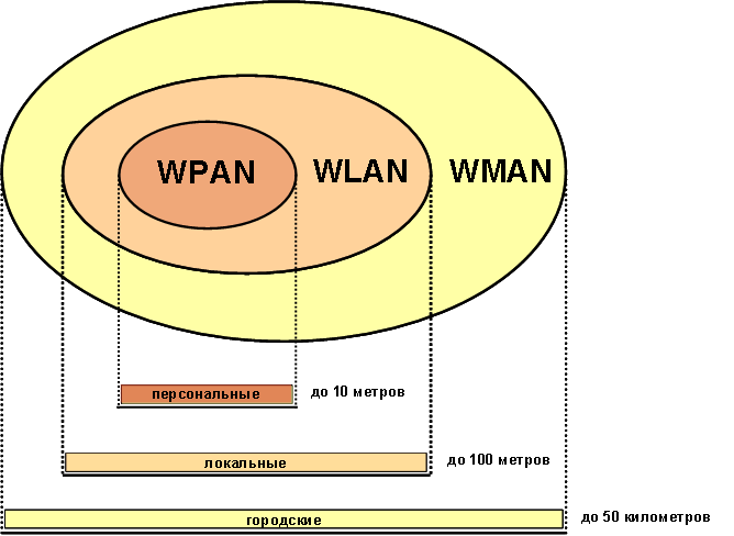 wireless classification